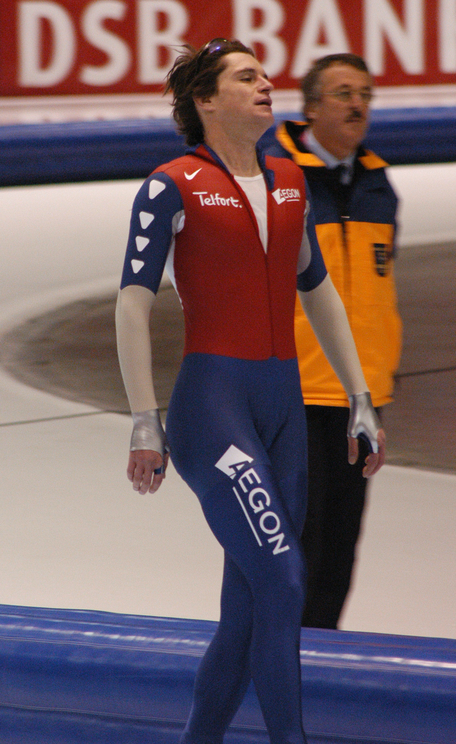 Jan Bos (NED) after a 1000 meter world cup speedskating race in Heerenveen, the Netherlands.